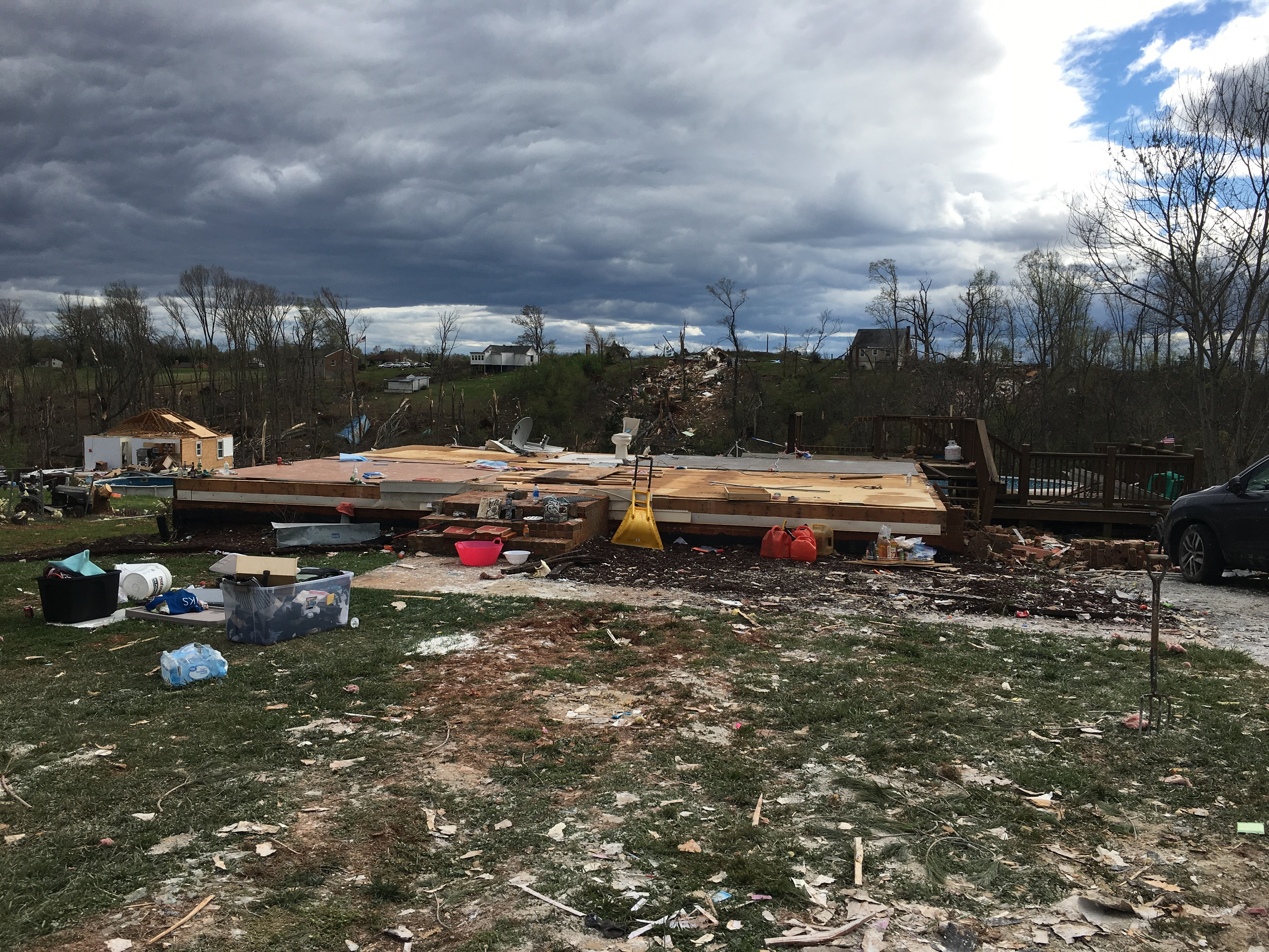 Mid-grade EF3 damage to a home near Elon, Virginia, on April 15, 2018.